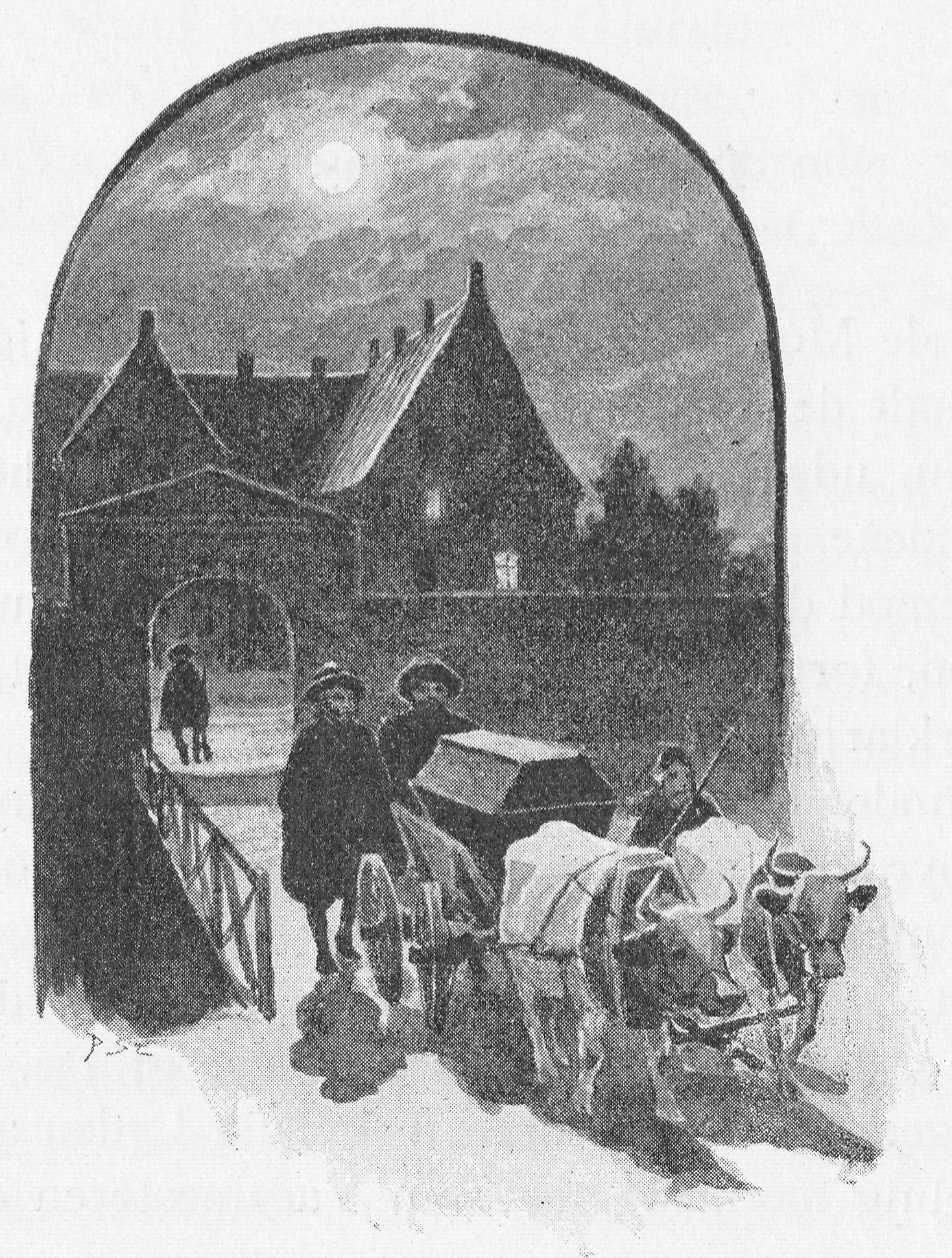 Illustration by Poul Steffensen from the Danish novel Dronningens Vagtmester by Carit Etlar which takes place during the Dano-Swedish War in 1658-1660. Svend Poulsen, Gøngehøvdingen, and Ib Abelsøn has been at the Søholm Castle to hole the hidden treasures of the noblewoman Elsebeth Buchwald. They pretended to be the father and the brother of the dead curate Tange to get in and hide the treasures in the coffin a peasant came with. Now they leaves before the Swedish soldiers at the castle closes the gate. The Swedes don't know about the treasure and that they left the evil Kulsoen as a prisoner at the castle. Søholm was pulled down around 1715 so the look may be the imagination of the artist.